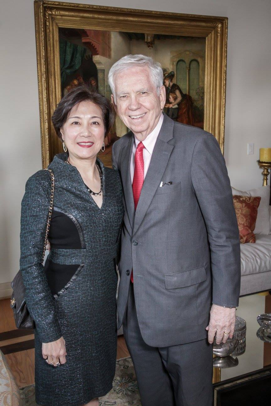 Charles and Lily Foster being honored at the Tapestry Gala 2016 Hosted by Interfaith Ministries